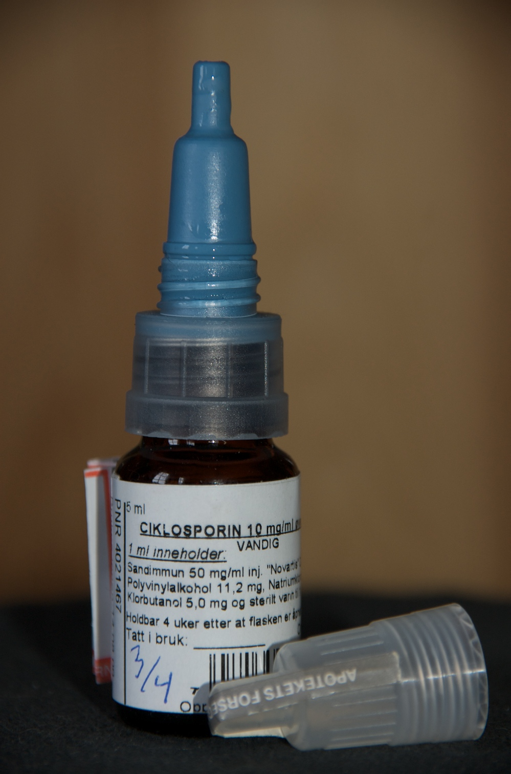 Bottle containing 10 mg/ml Ciclosporin in water.